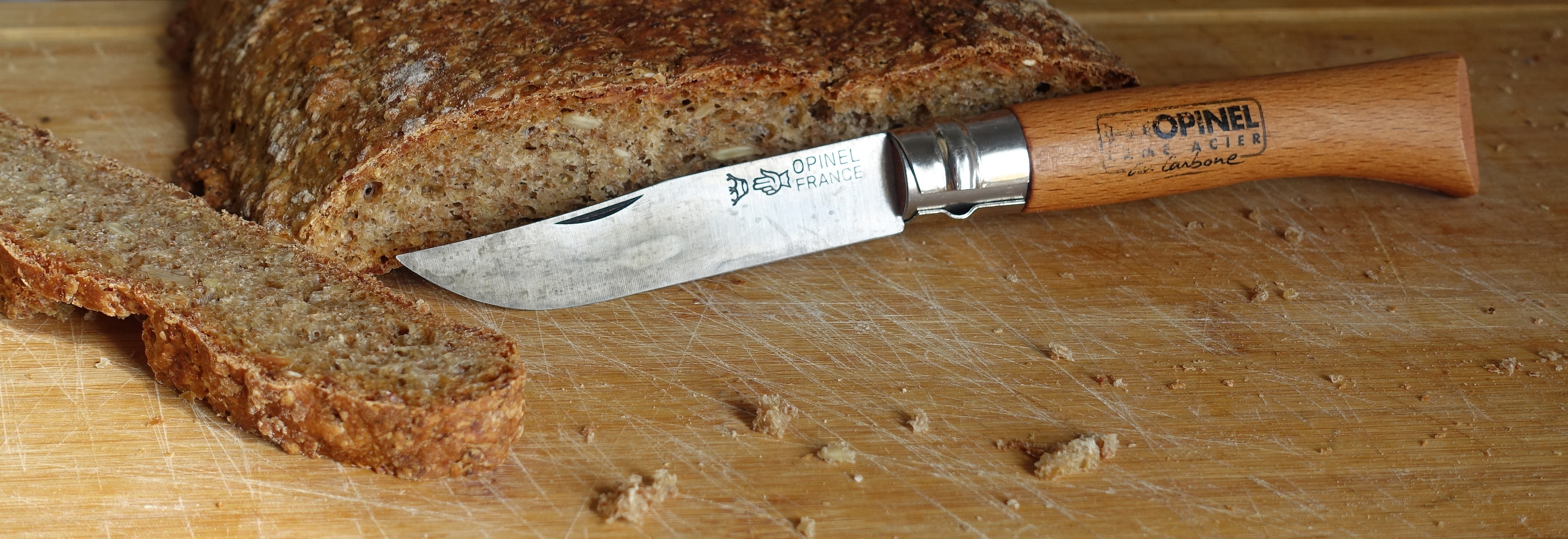 Opinel N°10 Carbon, version from c. 2000, with bread, on wooden board. Stains on the blade are a typical sign of usage for carbon steel knives. Inscriptions on blade: la main couronnée and "OPINEL FRANCE", on handle: la main couronnée and "OPINEL LAME ACIER au Carbone"